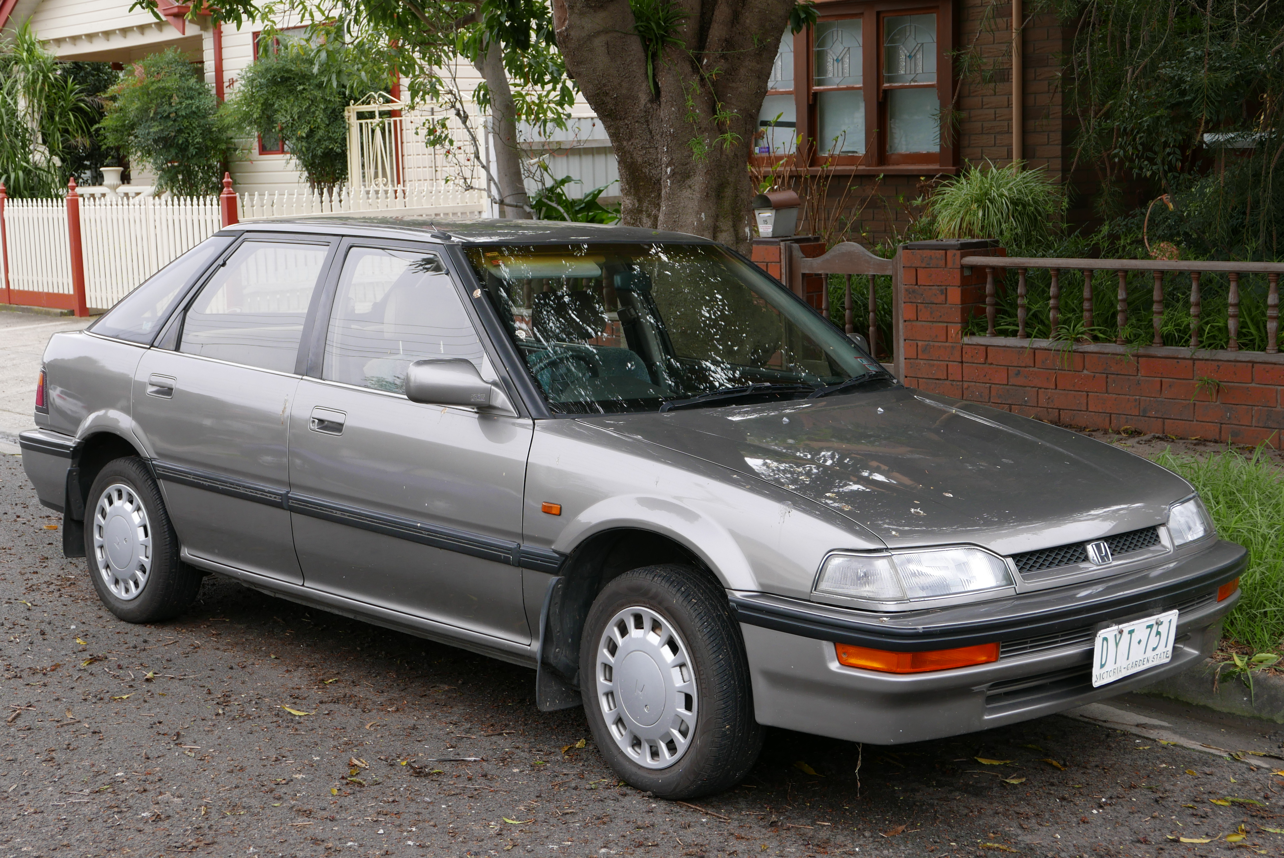 1989 Honda Concerto (MA2) EX-i hatchback. Photographed in Brunswick East, Victoria, Australia. Vehicle registration enquiry results Jurisdiction Victoria Registration DYT751 Chassis code JHMMA27600S002892 Engine code D16Z21000997 Compliance date 1989-07 Year of manufacture 1989